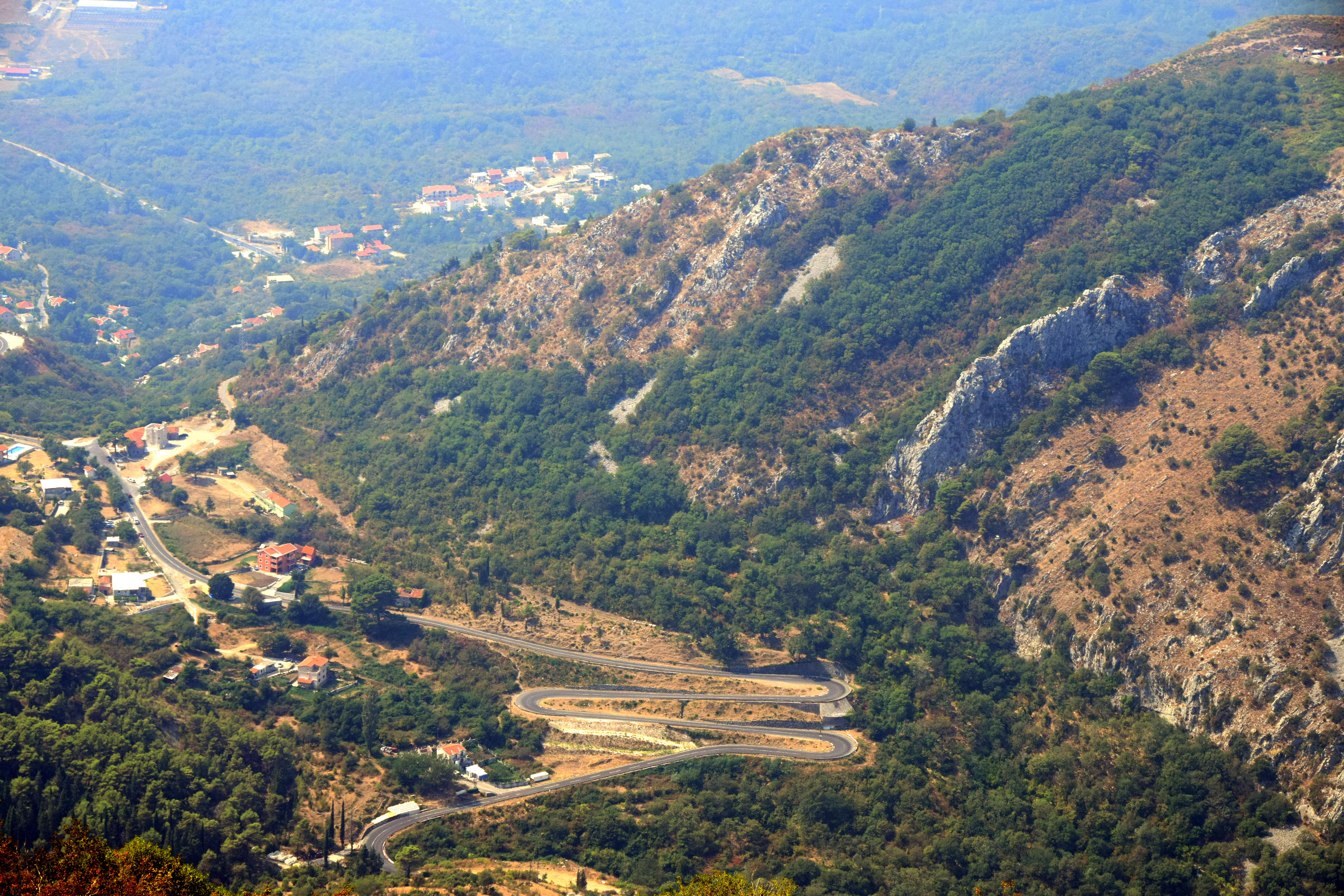 Road section between Kotor and the intersection of Trinity, in a shape of capital letter "M". There is a romantic story where the designer was in love with the Montenegrin princess Milena